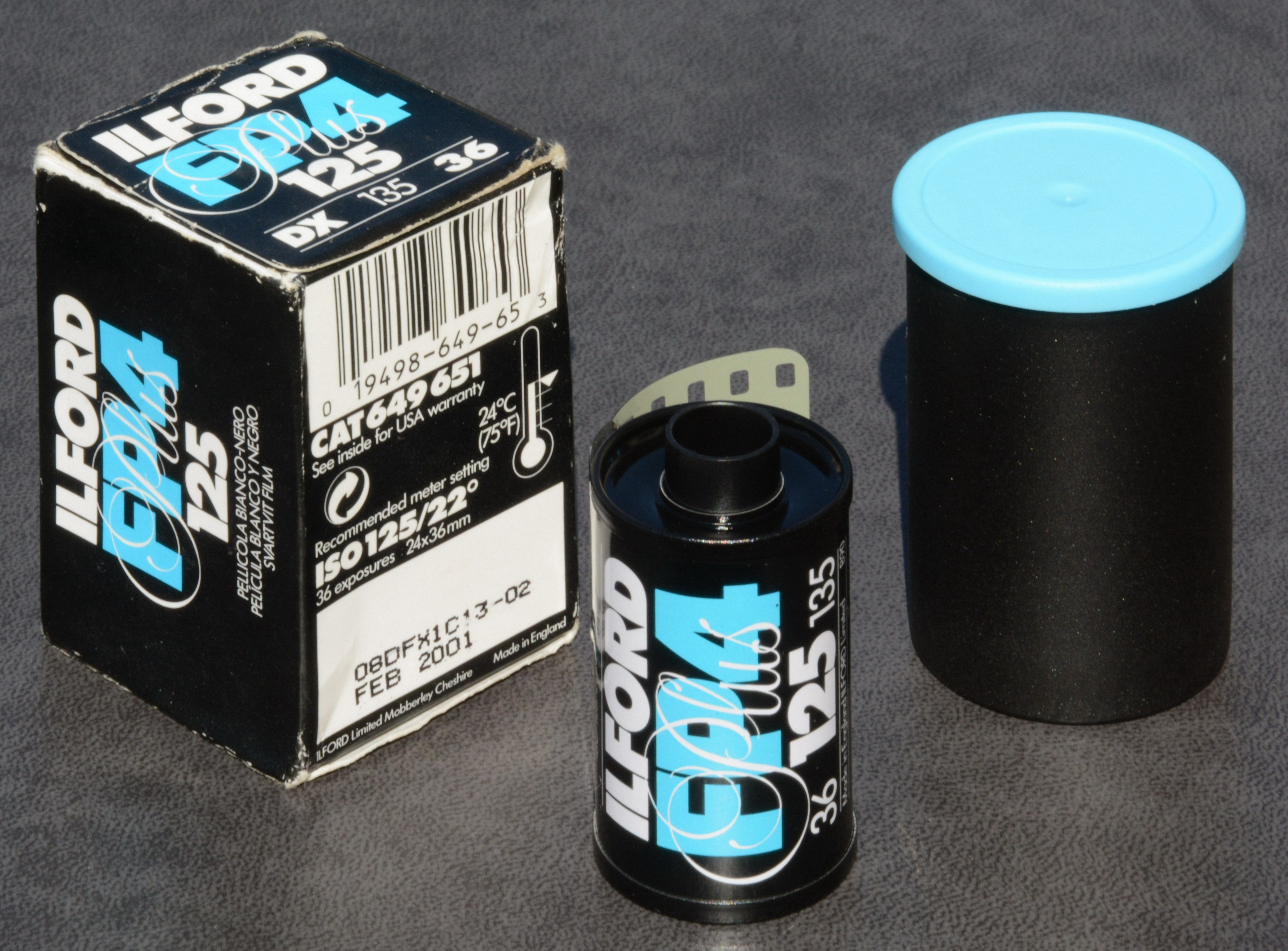 Ilford FP4 Plus - Black & white film with original box (expiration date Feb. 2001)